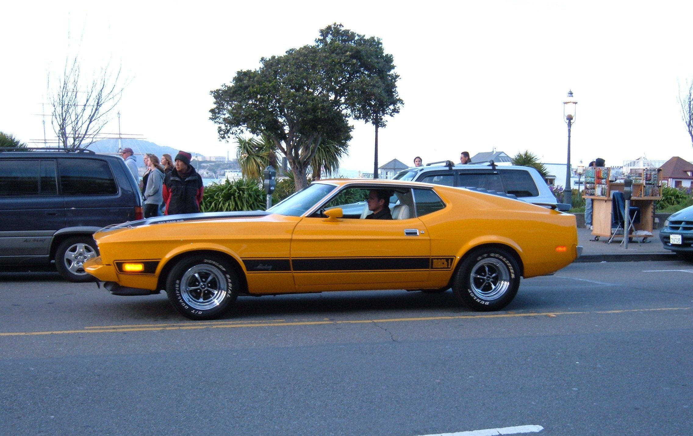 Orange Ford Mustang Mach 1 in San Francisco.